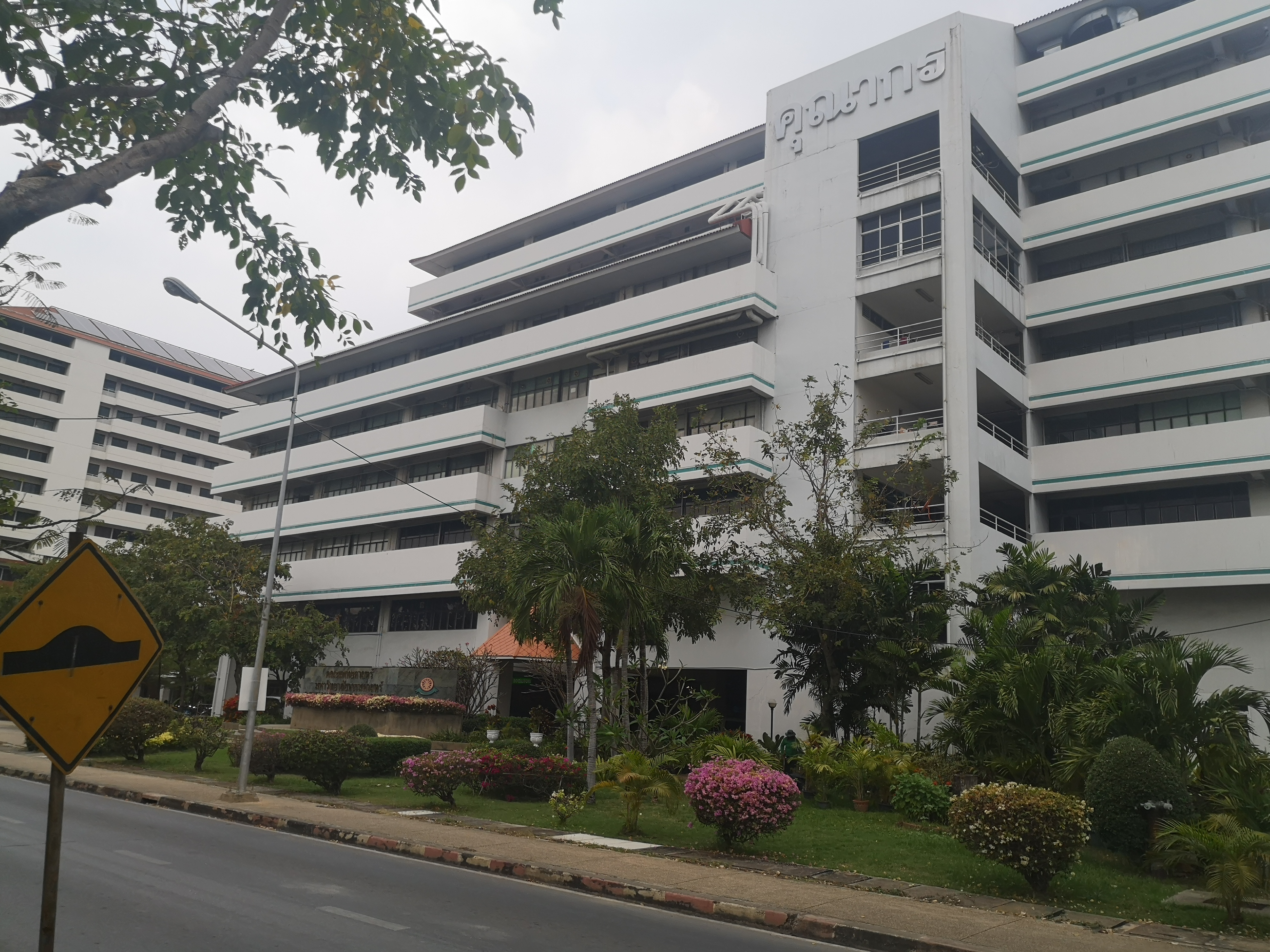 Faculty of Medicine, Thammasat University